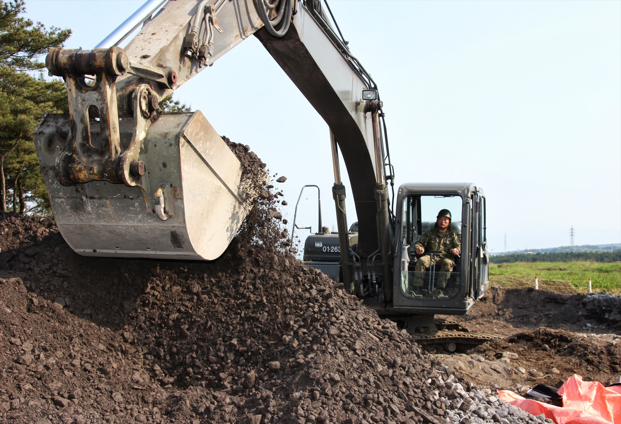 Title 油圧ショベル25.5.14 Ｄ－ＢＯＸを作成・設置する第５施設群隊員.JPG Album 装備 油圧ショベル（春季演習場整備・第５施設群）